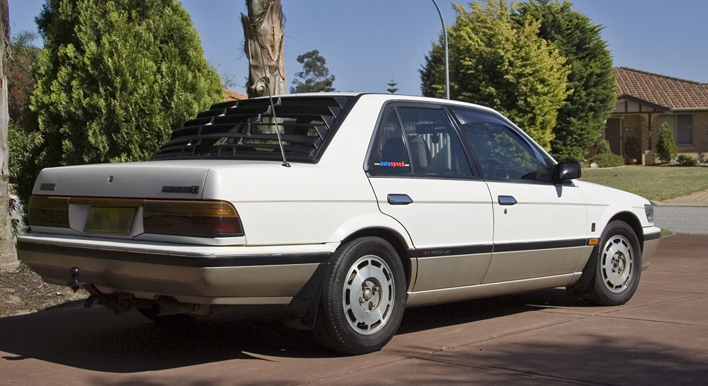 1989 Nissan Pintara (U12) Ti sedan